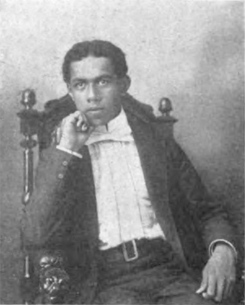 Joseph Kaiponohea ʻAeʻa, Recommended As A Cadet At West Point From Hawaii, By Delegate Wilcox.